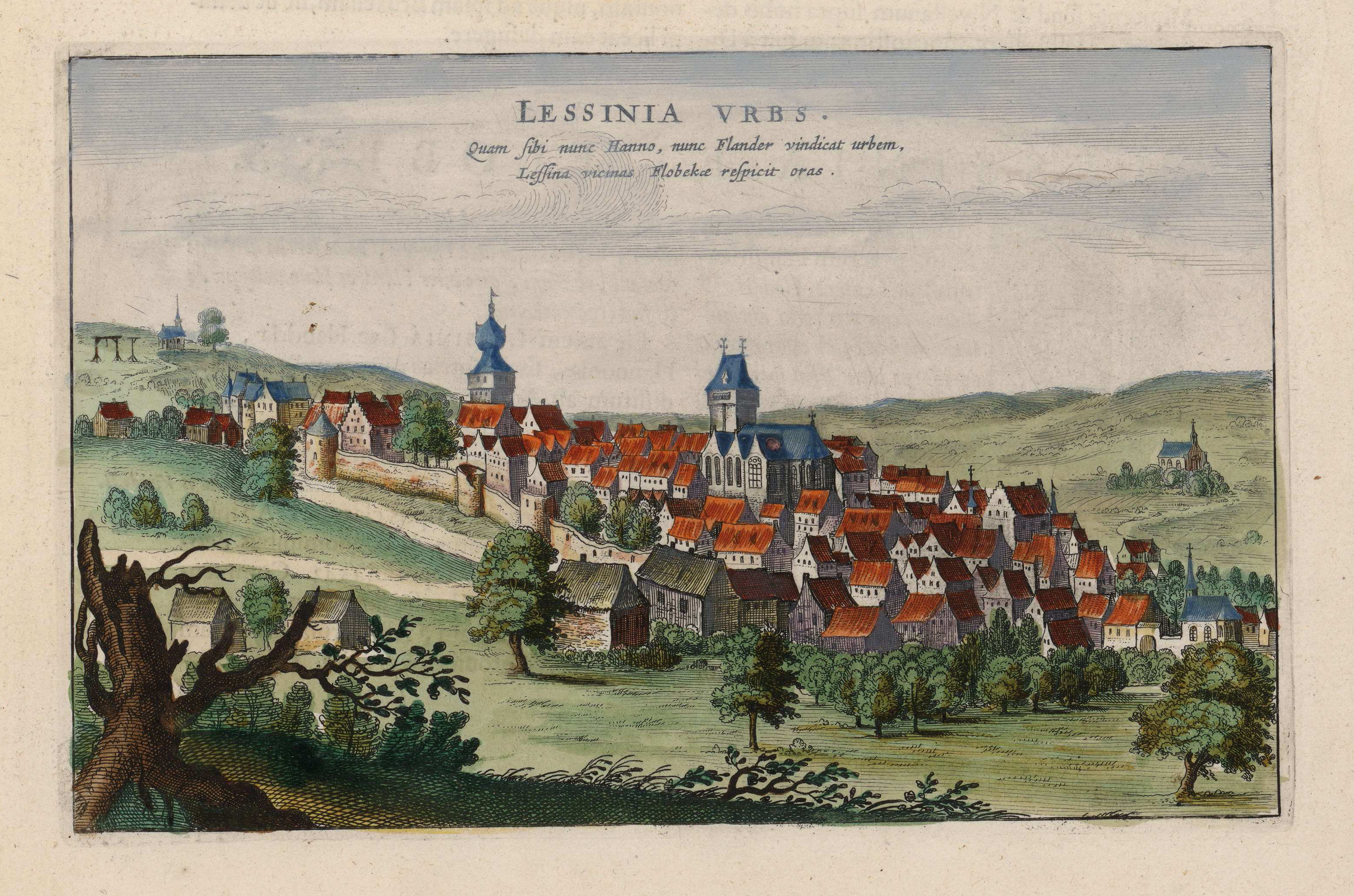 Copper engraving "Lessinia Vrbs" from the book "Toonneel der Steden van 's Konings Nederlanden, Met hare Beſchrijvingen" by Joan Blaeu c. ± 1649 (Amsterdam).